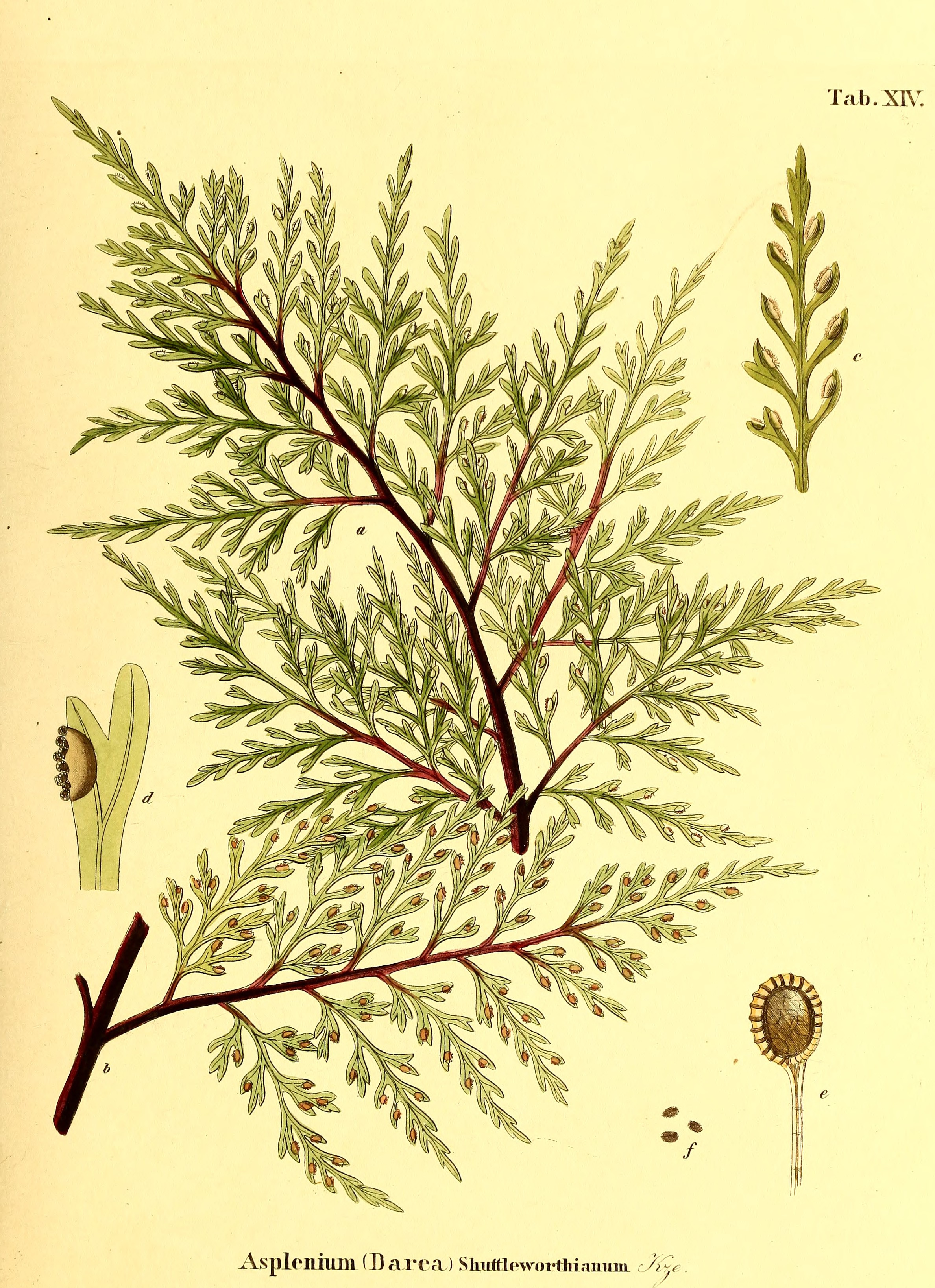 Title: Die Farrnkräuter in kolorirten Abbildungen naturgetreu Erläutert und Beschrieben Year: 1840 (1840s) Authors: Kunze, Gustav, 1793-1851 Subjects: Ferns Publisher: Leipzig, E. Fleischer Text Appearing Before Image: ' Text Appearing After Image: '